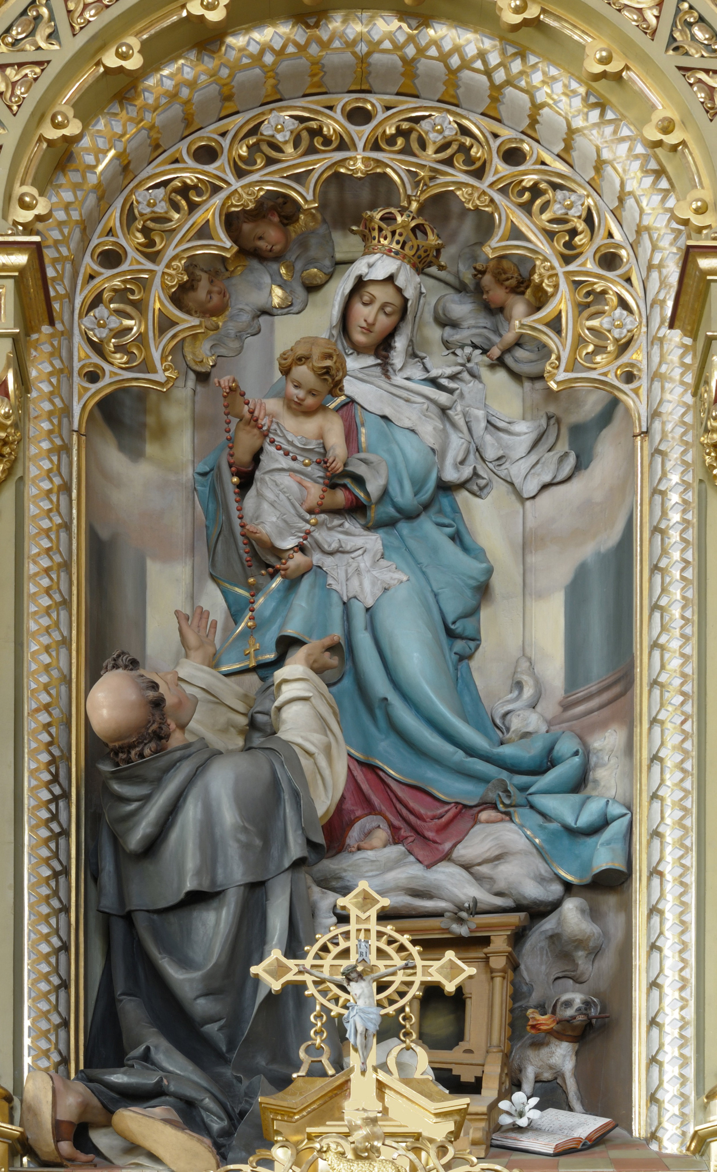 Rosary Madonna by the Tyrolean sculptor Josef Mersa ca 1905 in St. Ulrich in Gröden